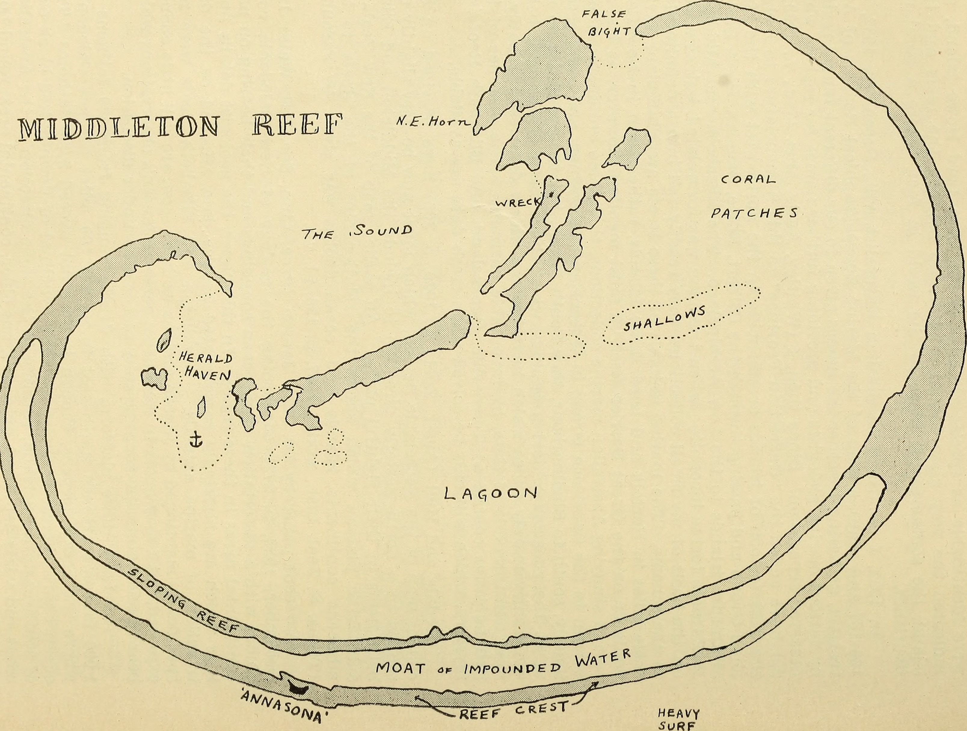 Title: The Australian zoologist Year: 1914 (1910s) Authors: Royal Zoological Society of New South Wales; Royal Zoological Society of New South Wales. Proceedings Subjects: Zoology; Zoology; Zoology Publisher: (Sydney, Royal Zoological Society of New South Wales) Text Appearing Before Image: 270 MIDDLETON AND ELIZABETH REEFS, SOUTH PACIFIC OCEAN. *" fN?' Text Appearing After Image: TRUE tfofj-TH